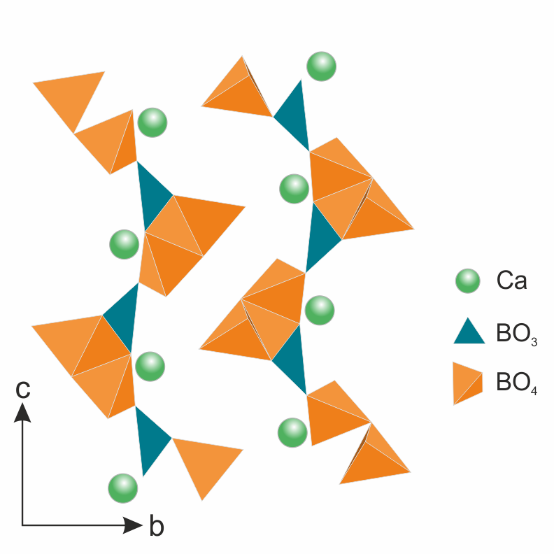 Part of the colemanite structure, projected parallel [001], with undulating chains of corner-sharing rings. Every ring consist of a planar BO3 group and two BO4 tetrahedrons. Reference: H. Strunz & E. Nickel, (2001), Strunz Mineralogical Tables, S. 344.